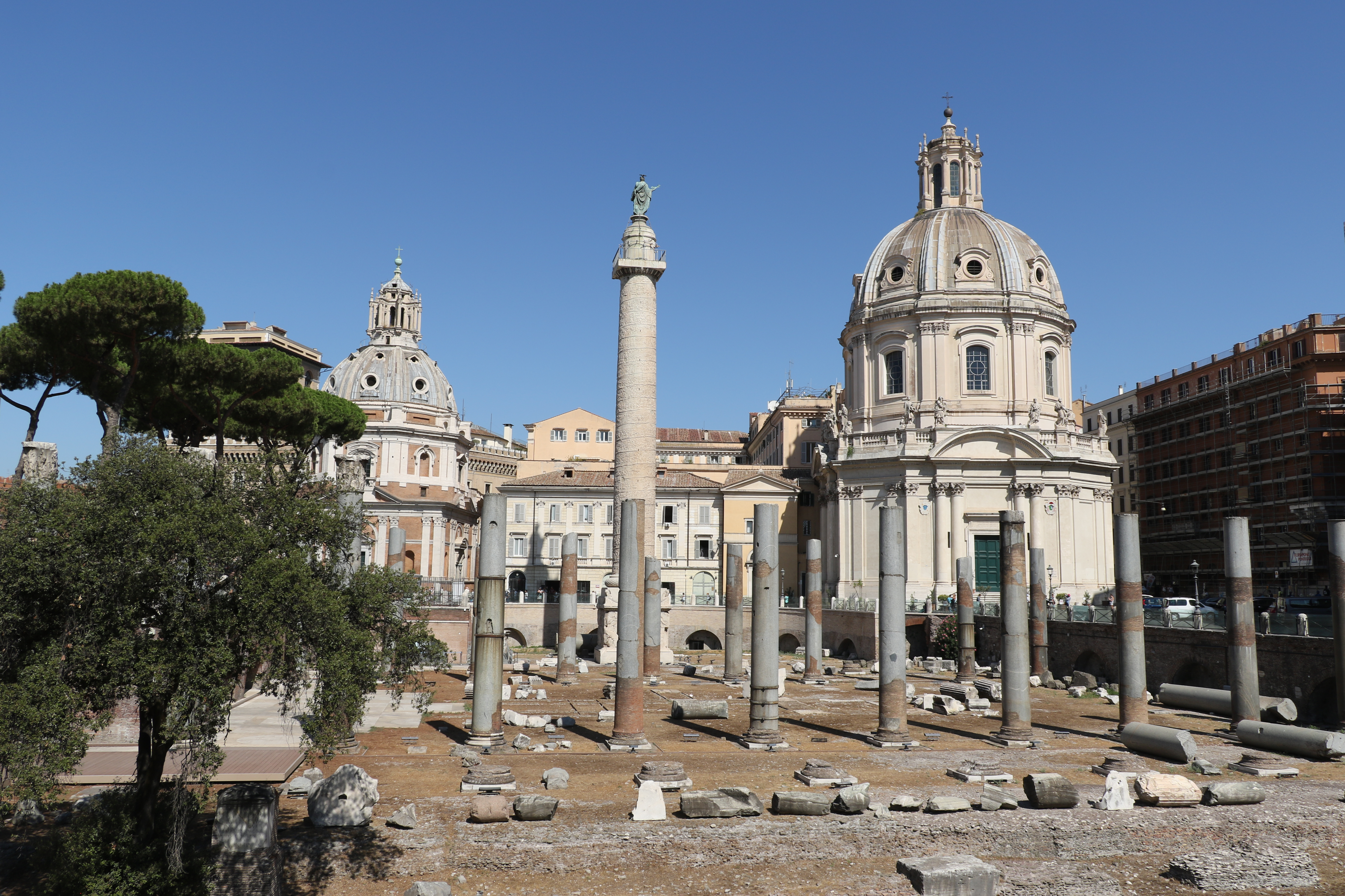 Trajan's Column and Church of the Most Holy Name of Mary at the Trajan's Forum - Rome